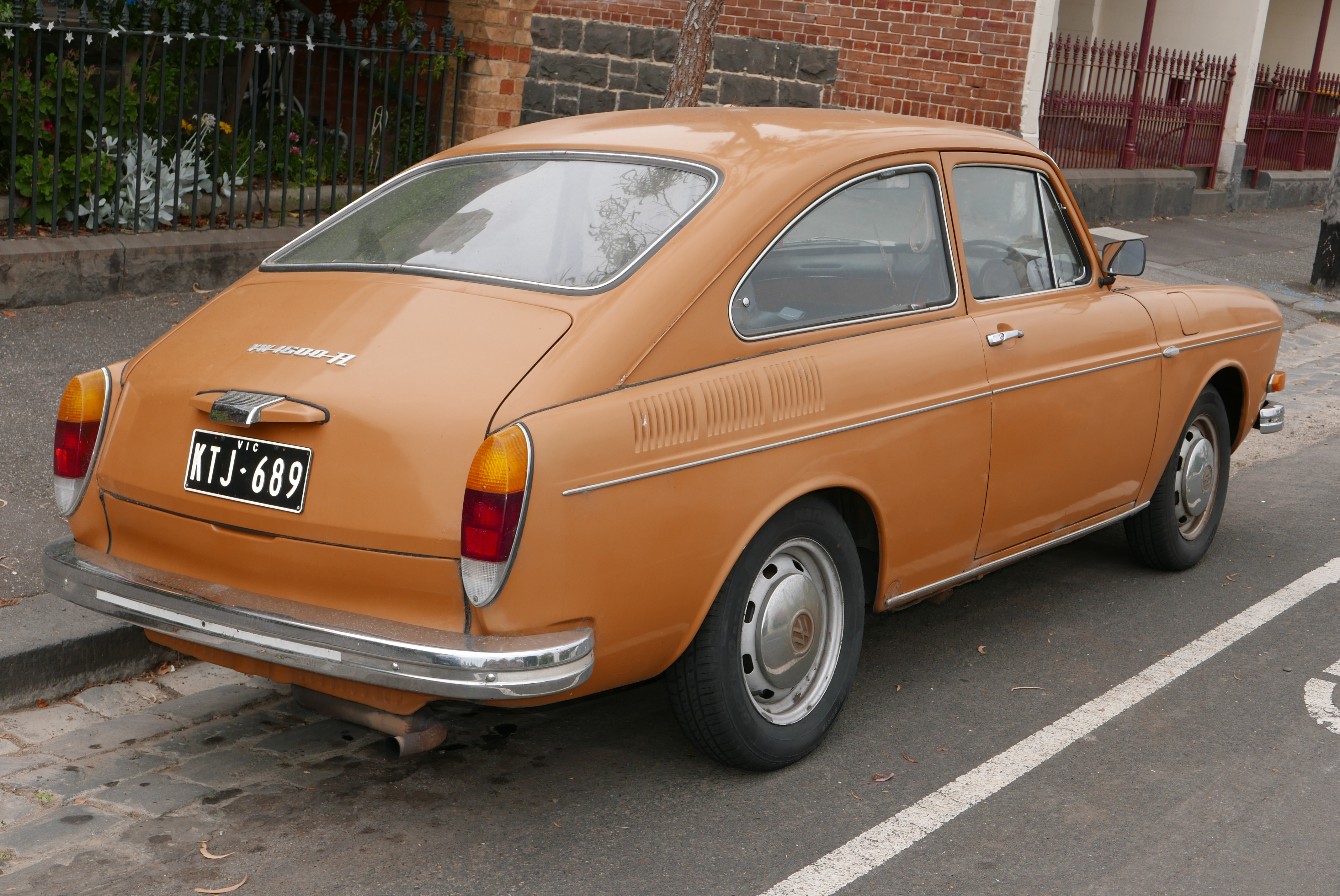 1970 Volkswagen 1600 (Type 3) TL fastback sedan. Photographed in Princes Hill, Victoria, Australia. Vehicle registration enquiry results Jurisdiction Victoria Registration KTJ689 Chassis code 3102225182 Engine code T0794751 Compliance date 1970-11 Year of manufacture 1970